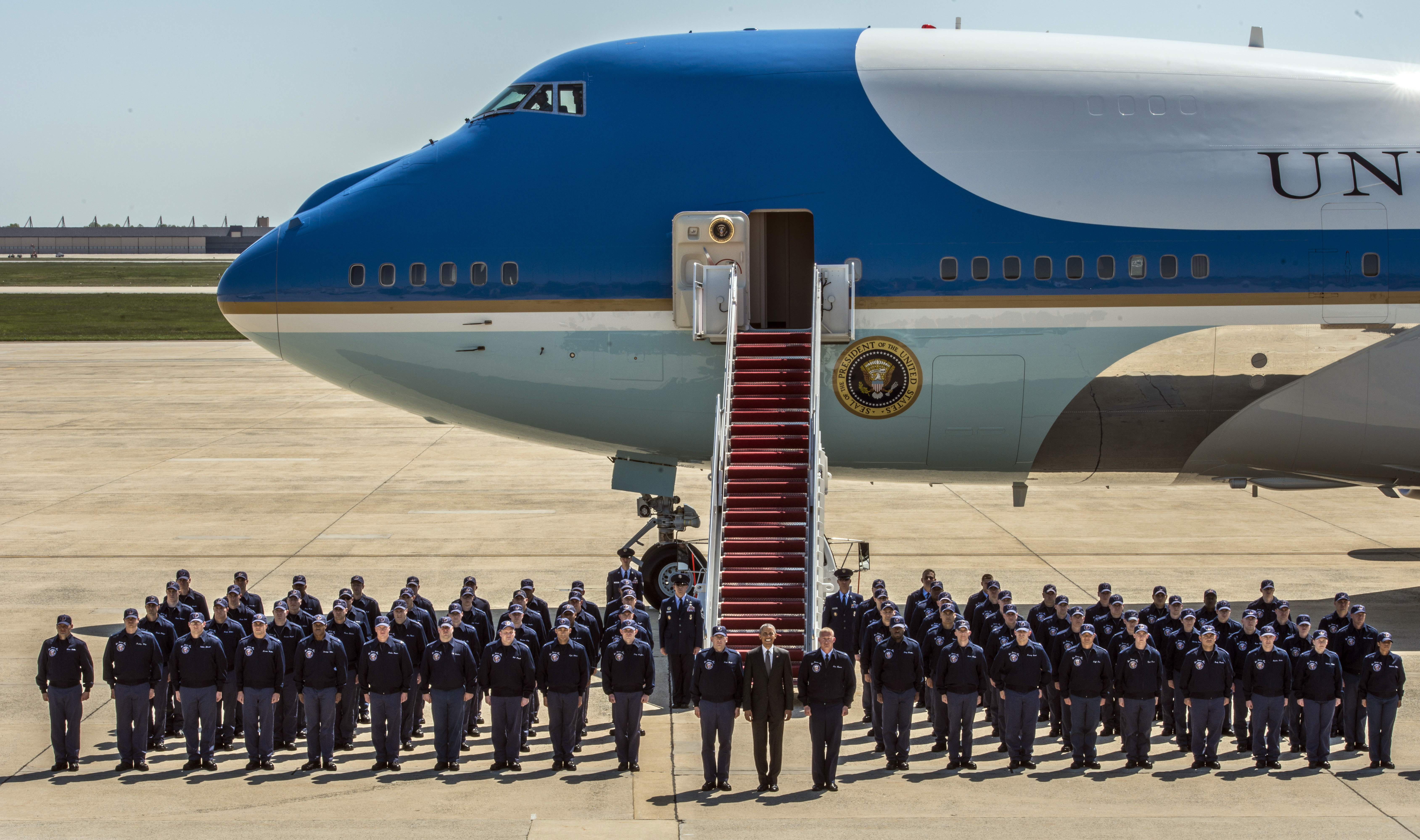 President Barack Obama and Airmen from the Presidential Logistics Squadron, pose in front of ‘Air Force One,’ an 89th Airlift Wing VC-25, at Joint Base Andrews, Md., prior to Obama’s trip to New York City, May 4, 2015. The PLS is responsible for maintaining the VC-25s, and Tail #28000, featured here, returned to service after an 18 month heavy, depot-level maintenance cycle. (U.S. Air Force photo by Senior Master Sgt. Kevin Wallace/RELEASED)